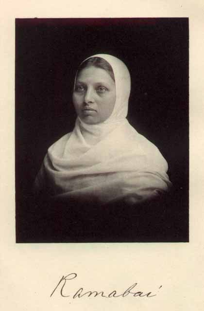 Pandita Ramabai herself (a photo from the book)